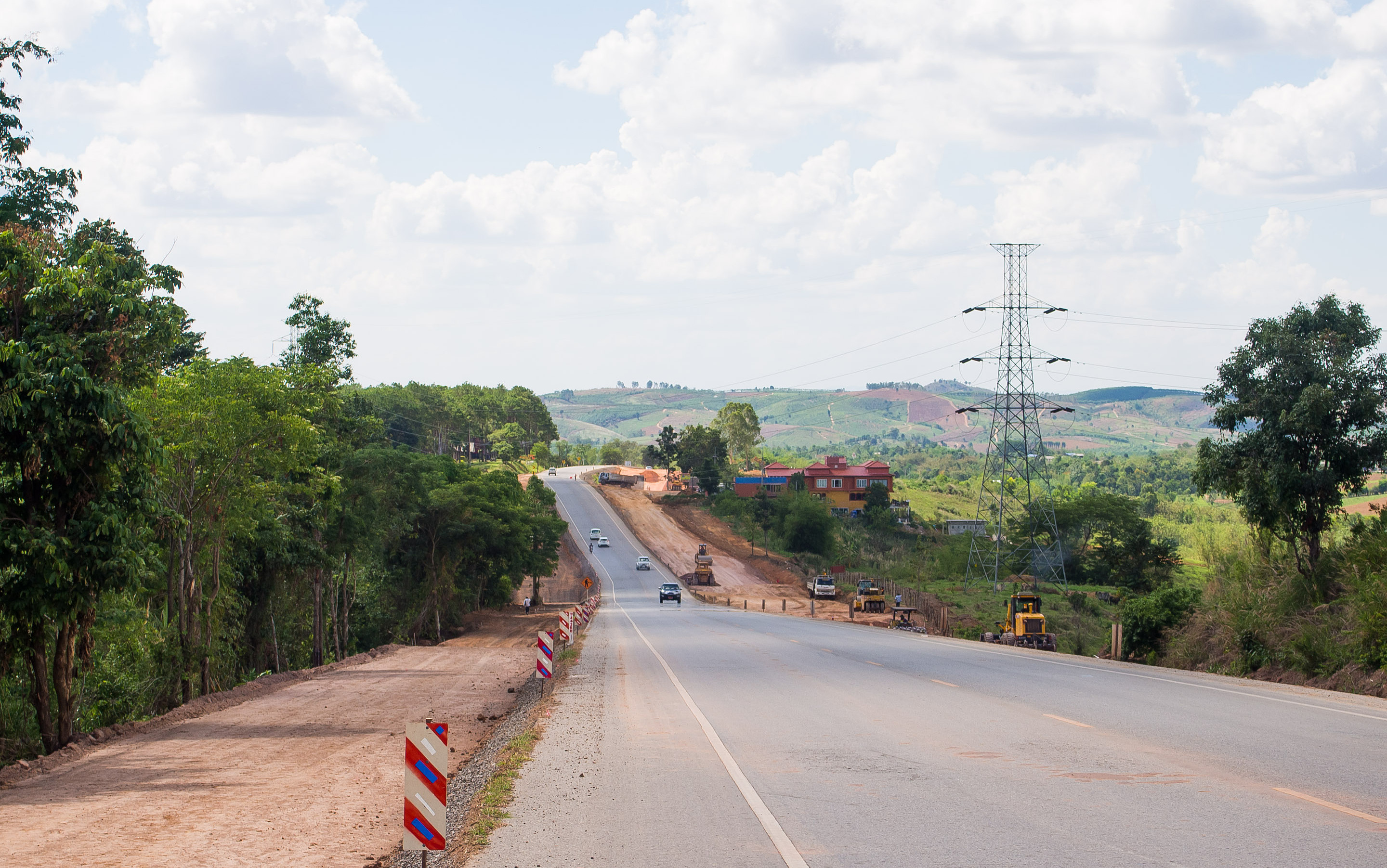 Asian Highway 16 (Thai highway 12) in Phetchabun province. It is being widened to accommodate the expected increase of traffic as part of the "East-West Corridor", connecting the South China Sea with the Indian Ocean. It runs from near Hue in Vietnam, across Laos and Thailand, where it connects with AH1 which leads to near Moulmein and it's harbour in Burma.